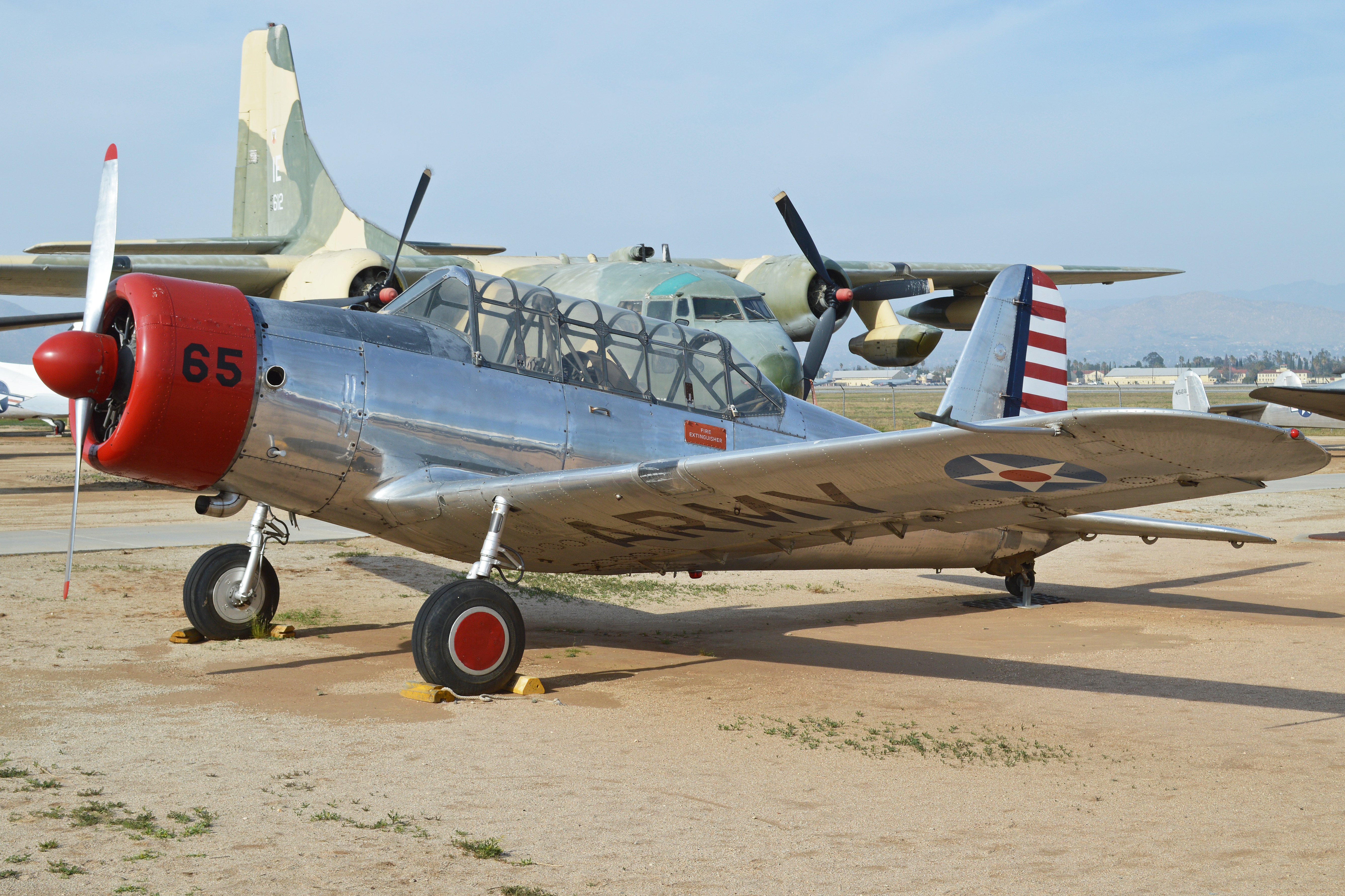 c/n 74-5326. Built 1941. US military serial 41-21487. On display at the March Field Museum, Riverside, CA, USA. 28-2-2016